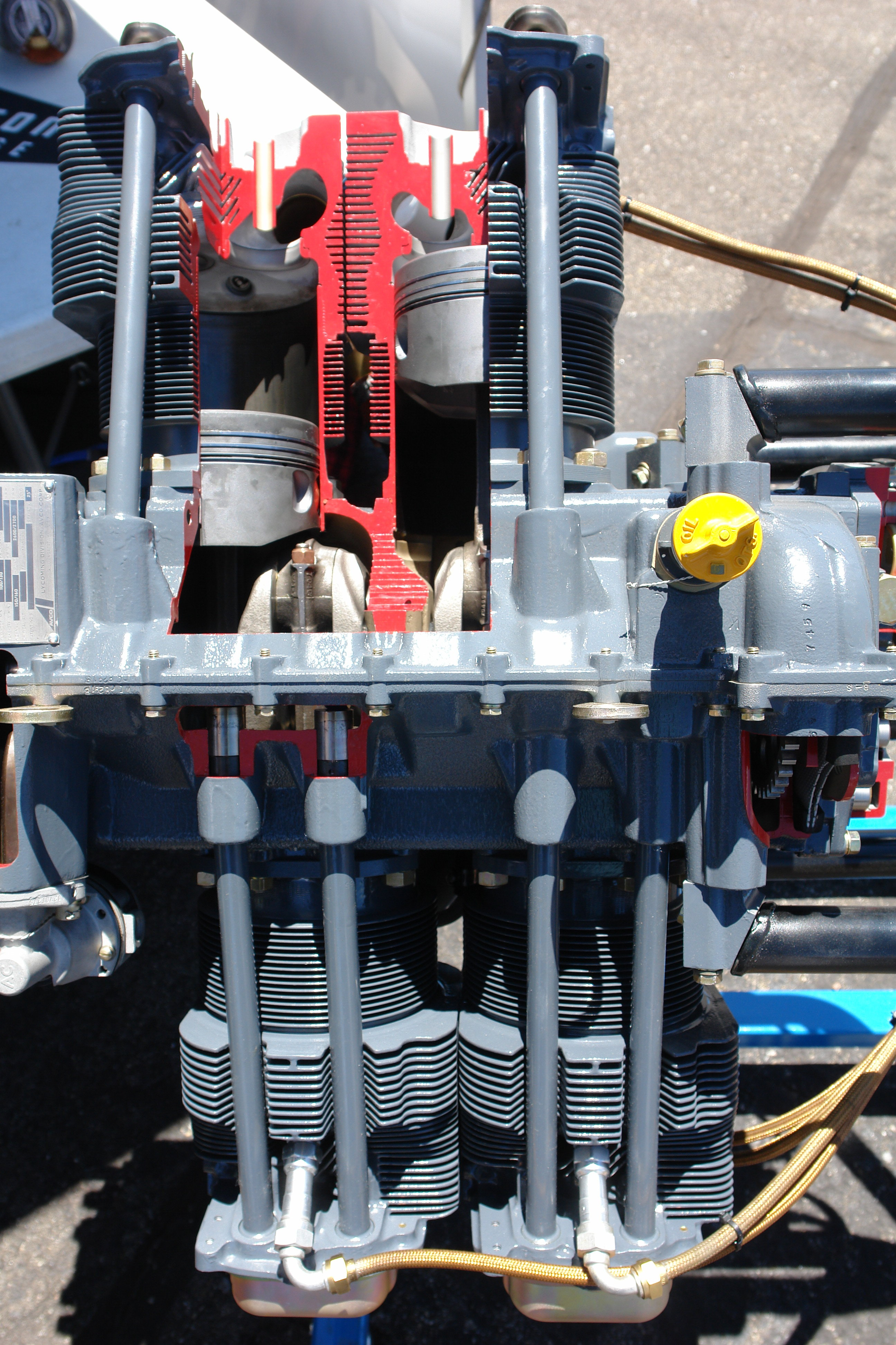 Cutaway of an aircraft horizontally opposed engine with 4 cylinders.